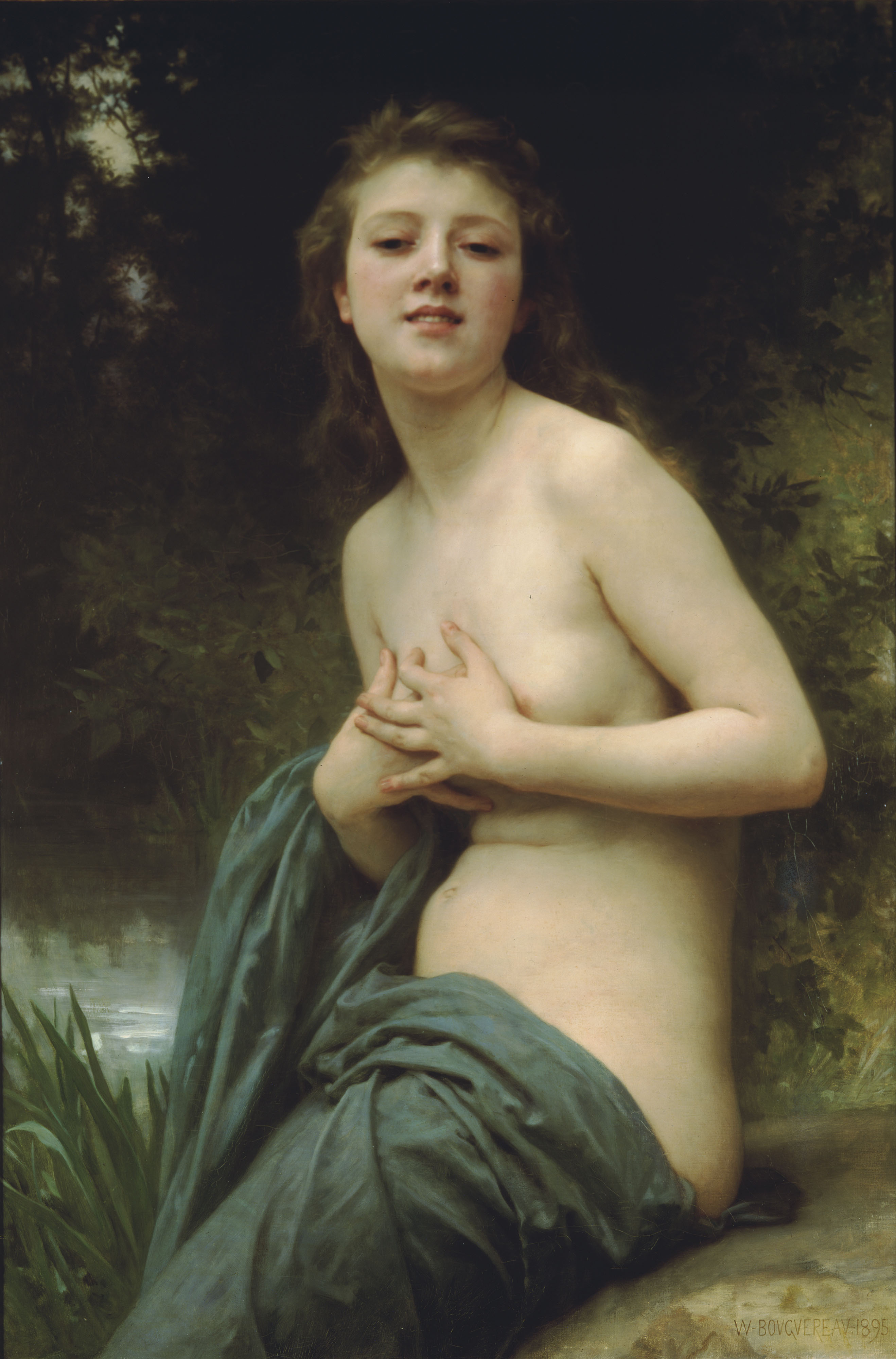 La brise du printemps (french for "spring breeze")